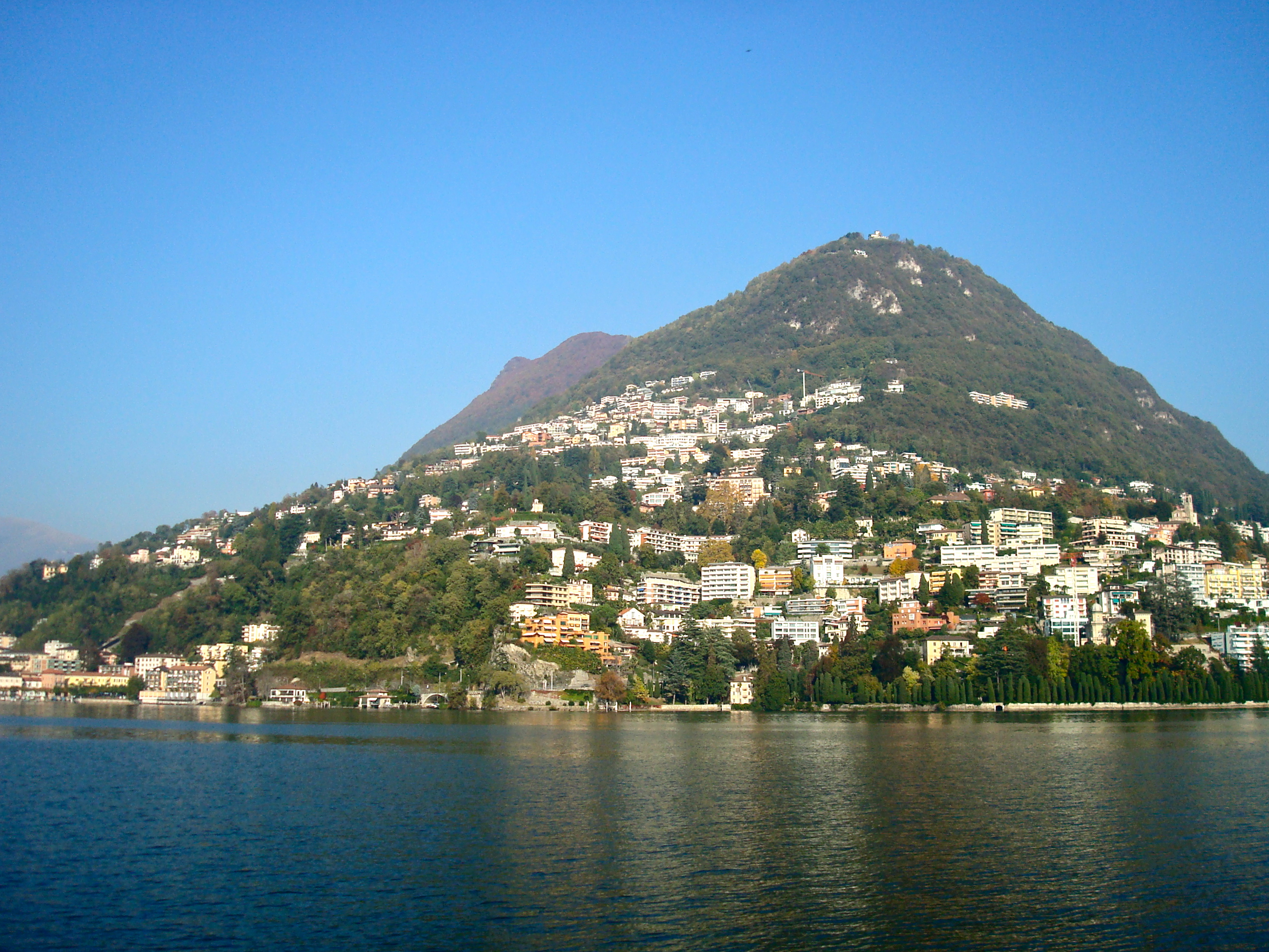 District Castagnola, Lugano, Ticino, Switzerland